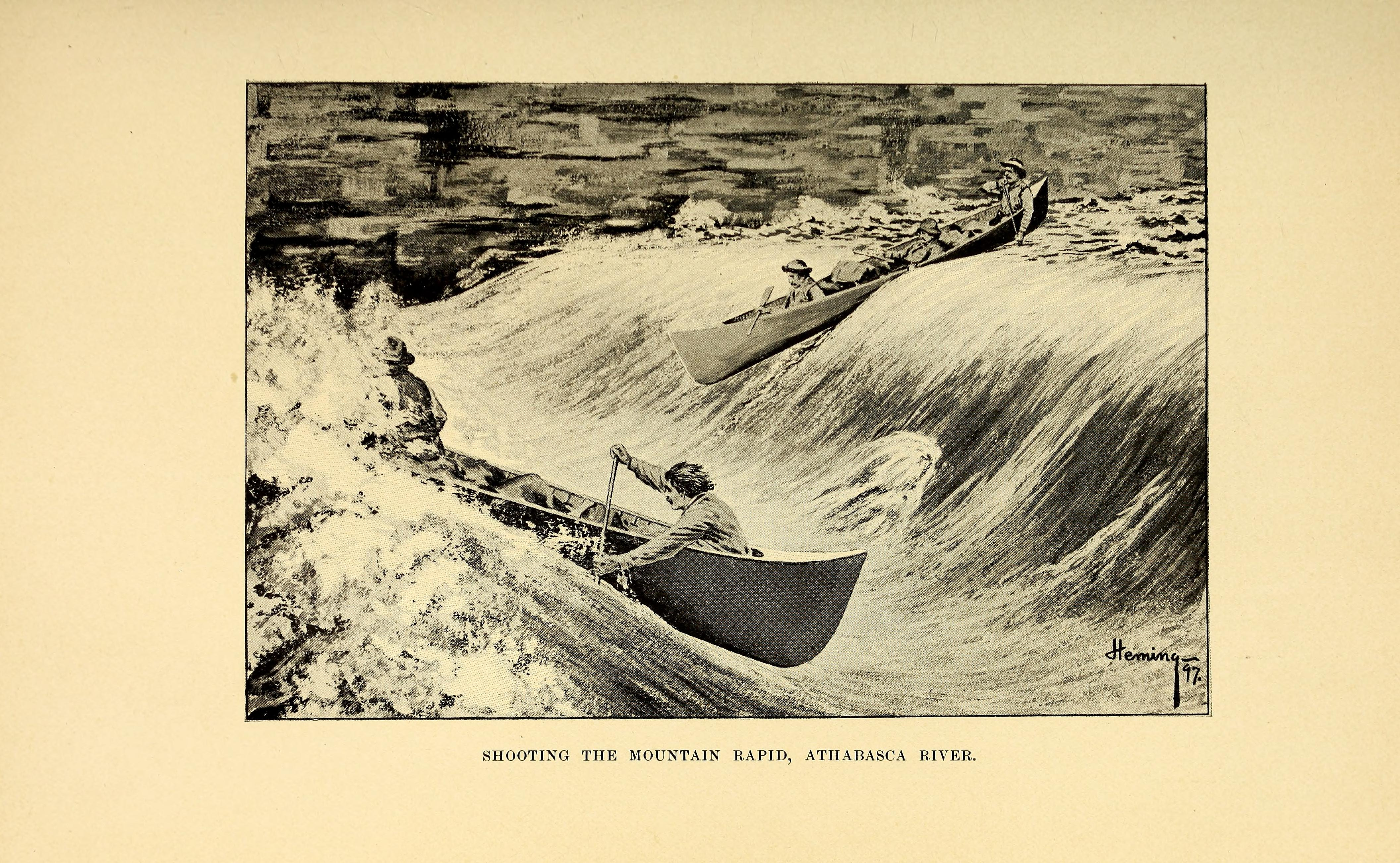 Title: Across the sub-Artics of Canada, a journey of 3,200 miles by canoe and snow-shoe through the barren lands, including a list of plants collected on the expedition, a vocabulary of Eskimo words, a route map and full classified index Year: 1898 (1890s) Authors: Tyrrell, James, Williams, 1863- Subjects: Botany; Eskimo languages Publisher: New York, Dodd, Mead Text Appearing Before Image: ' Text Appearing After Image: '